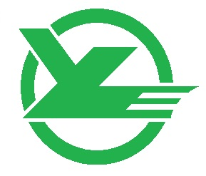 Toin Mie chapter